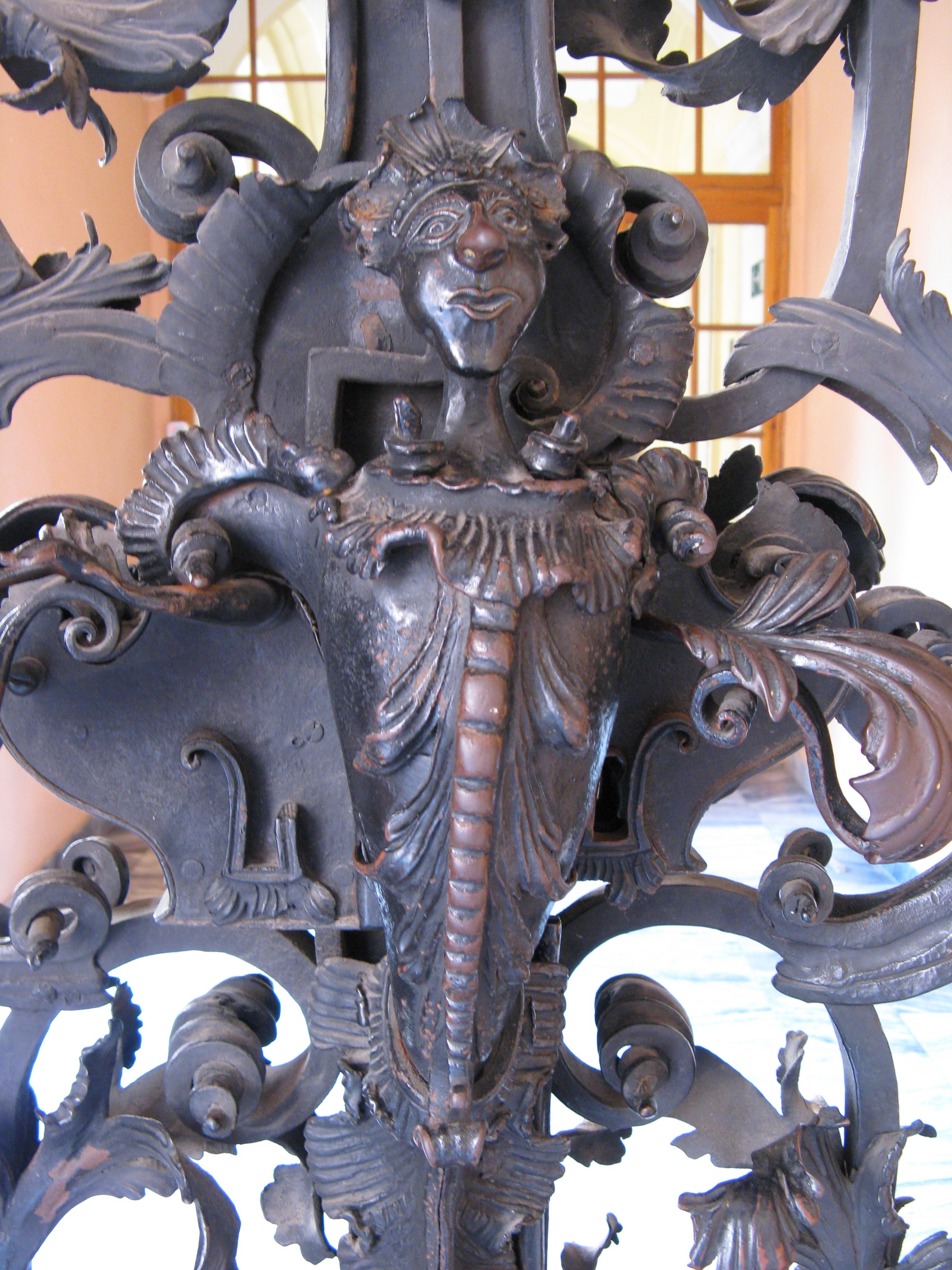 Gates of Fazola Henrik, Eger